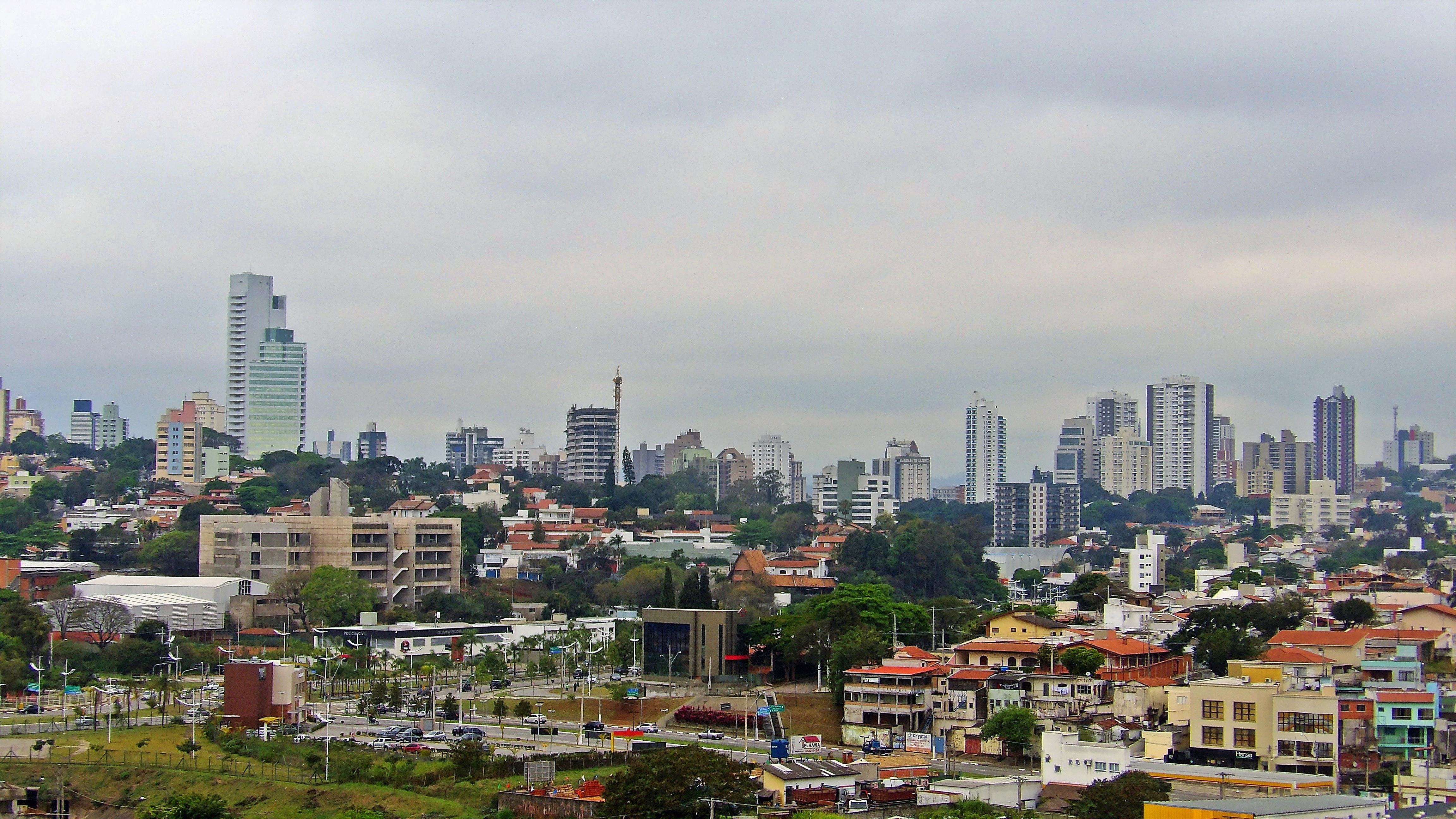 View of the Nove de Julho Avenue area, from Vila Hortolandia. September 12, 2015.